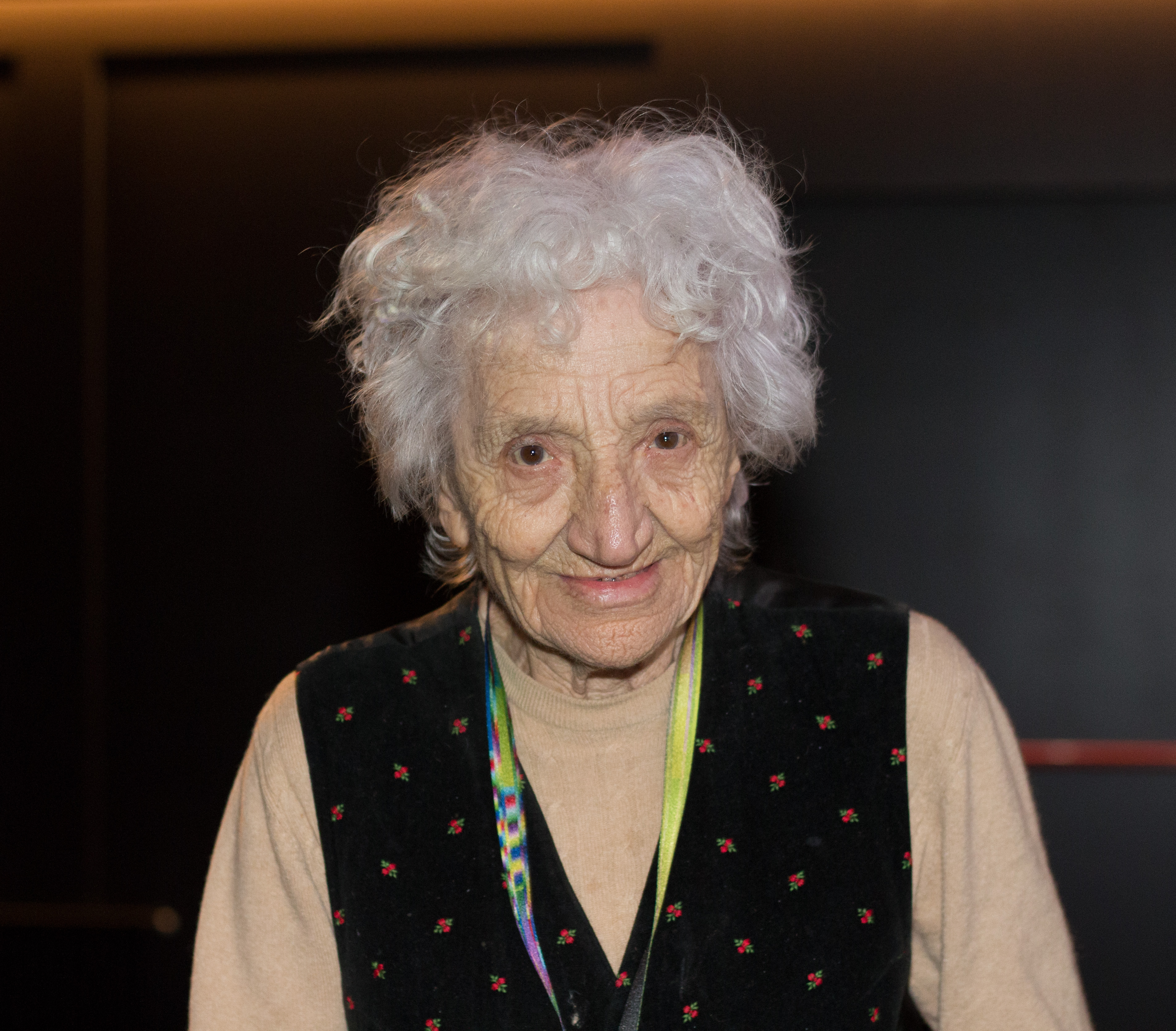 Cécilia Mangini at the IFFR 2020 promoting "Due scatole dimenticate"